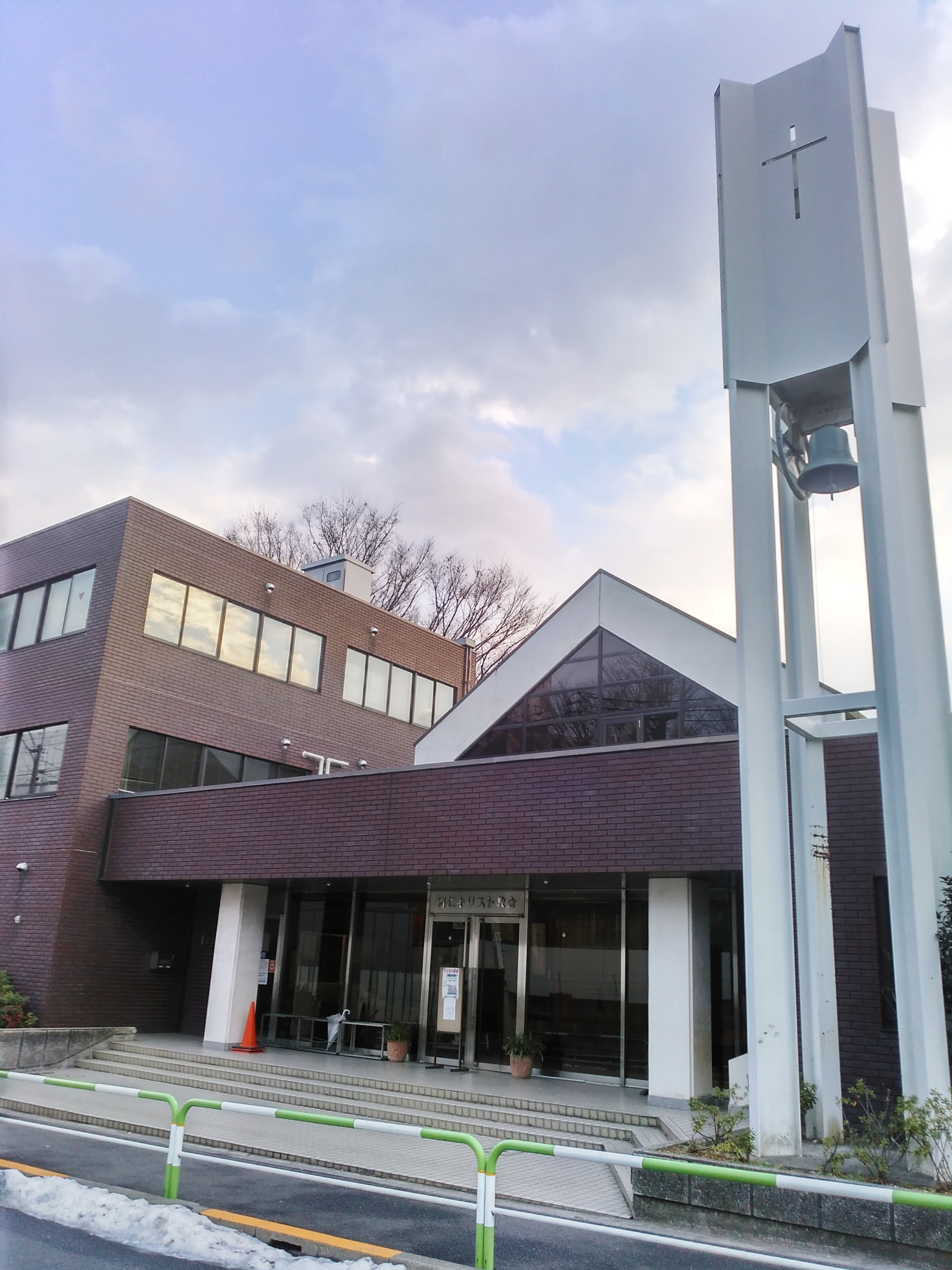 Doujin Christ Church (同仁キリスト教会, Dōjin Kirisuto Kyōkai) in Bunkyo-ku, Tokyo, Japan.